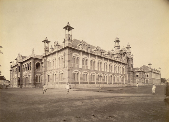 Photograph of the Chimnabai Nyaya Mandir or High Court at Baroda, Gujarat, taken by an unknown photographer during the 1890s.